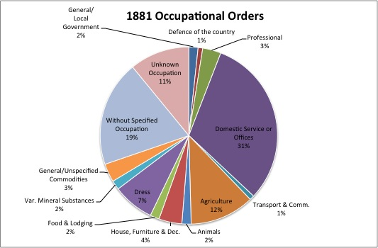 Pie chart created on Microsoft Excel presenting the occupational structure of Spennithore in 1881